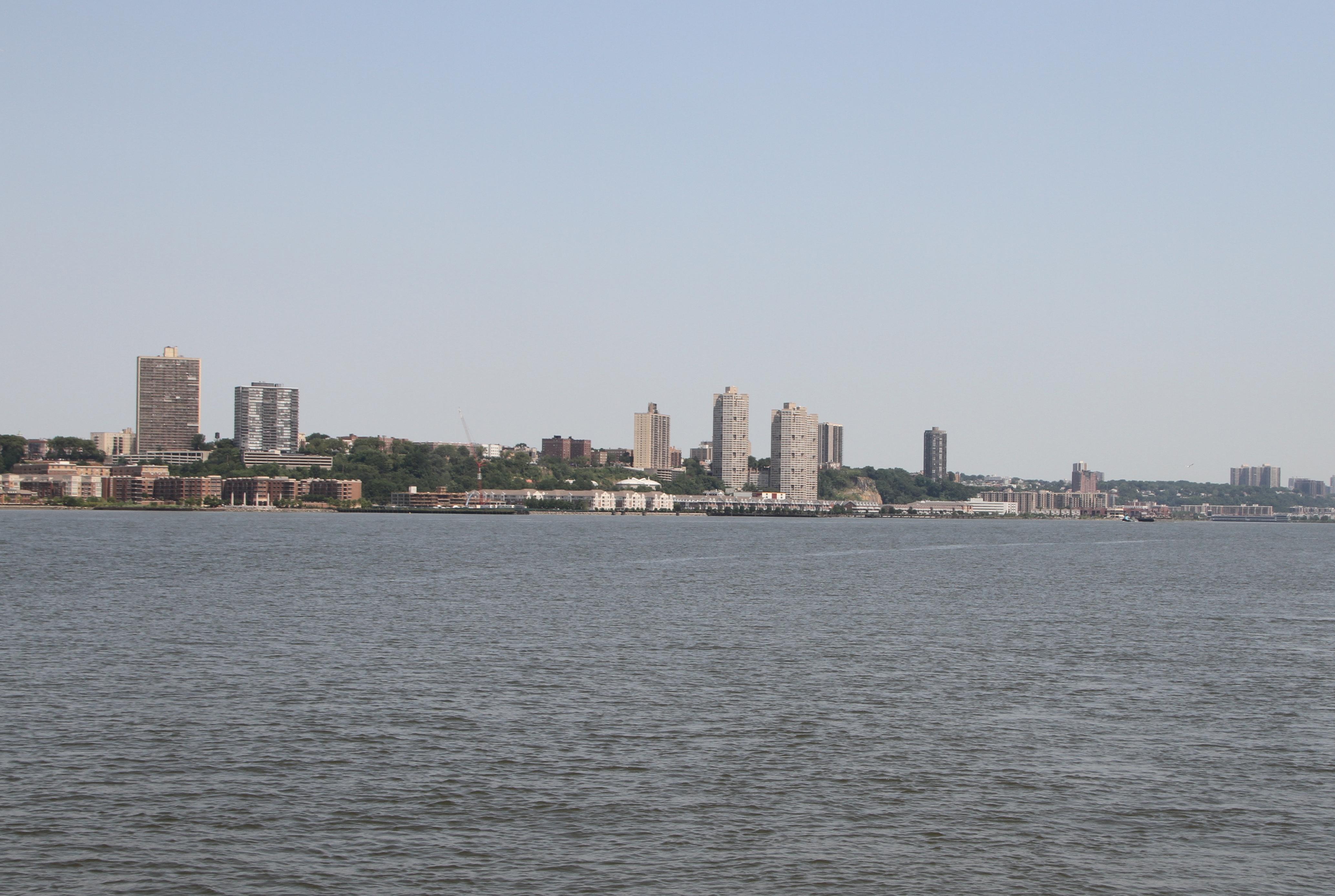 Guttenberg and West New York, a settlement on the west Hudson River bank, in New Jersey, just opposite Manhattan.